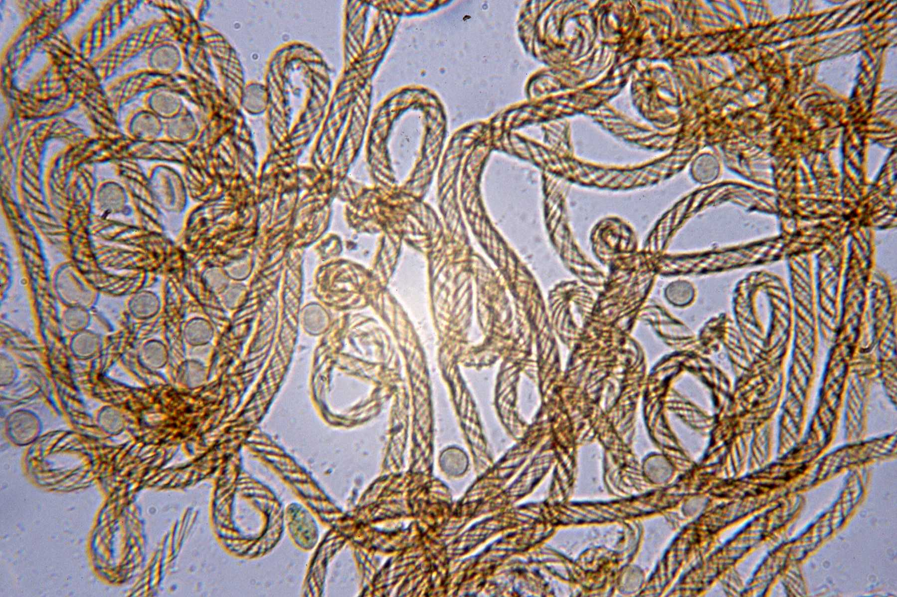 Micr. 400x